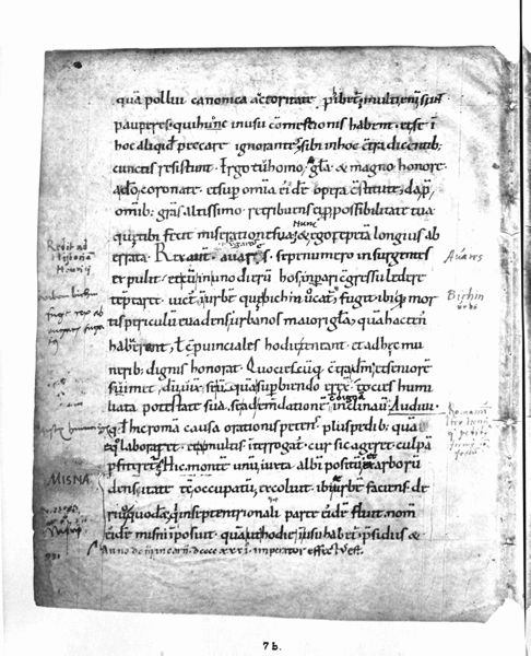 Thietmar of Merseburg. Page of the Chronicle (Dresden manuscript)